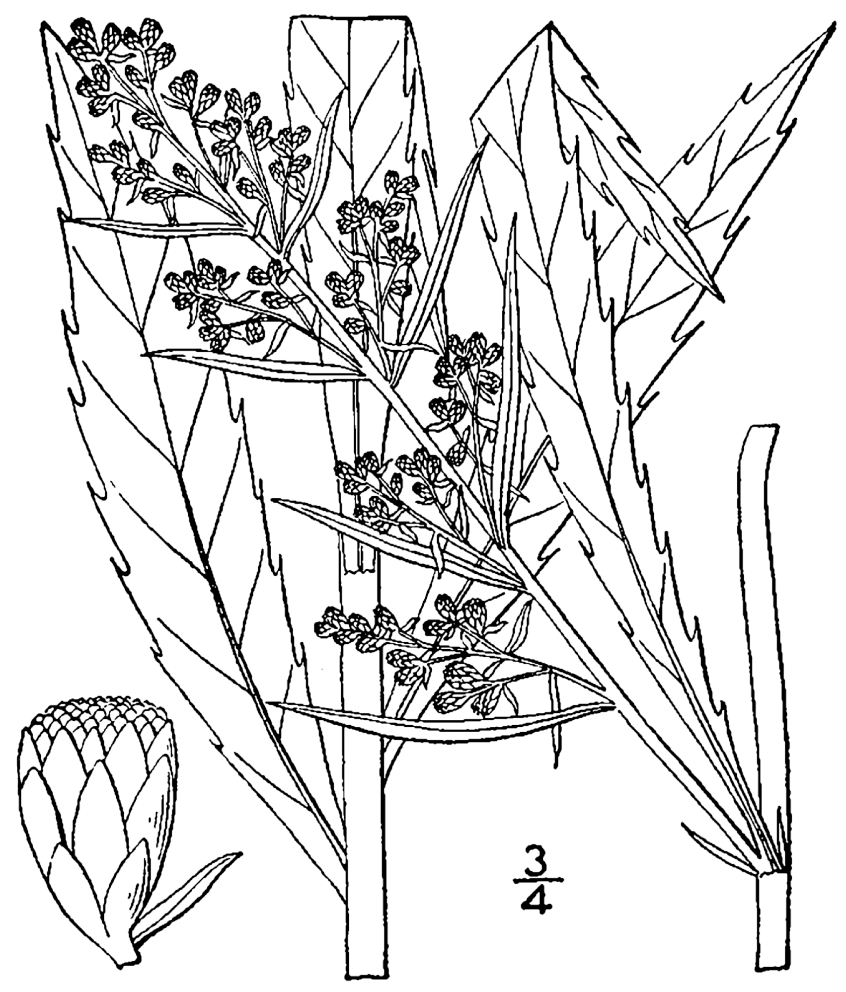 Artemisia serrata Nutt. - sawtooth wormwood